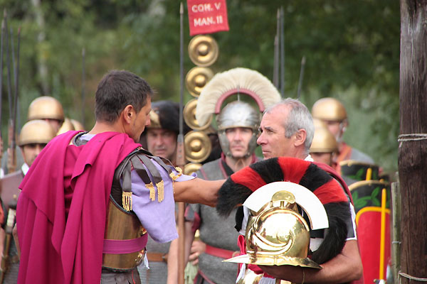 Départ d'un détachement de la Vème légion Alauda, période Guerre des Gaules